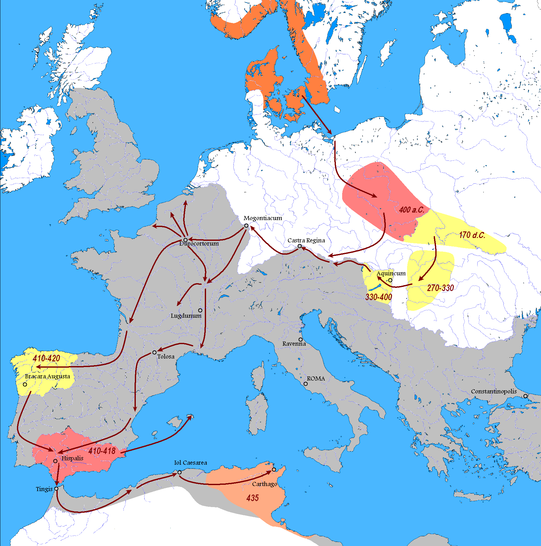 Map of Vandals' migration (latin)